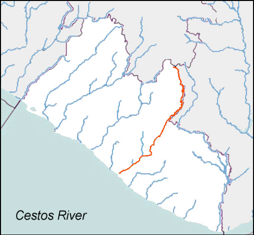 Maps of Cestos River, Liberia.